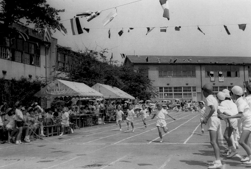 Umenoki primary school, Kita, Tokyo, in 1972.